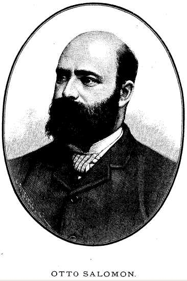 Otto Aron Salomon (1849-1907) Swedish teacher of sloyd (crafts) in Nääs, Sweden